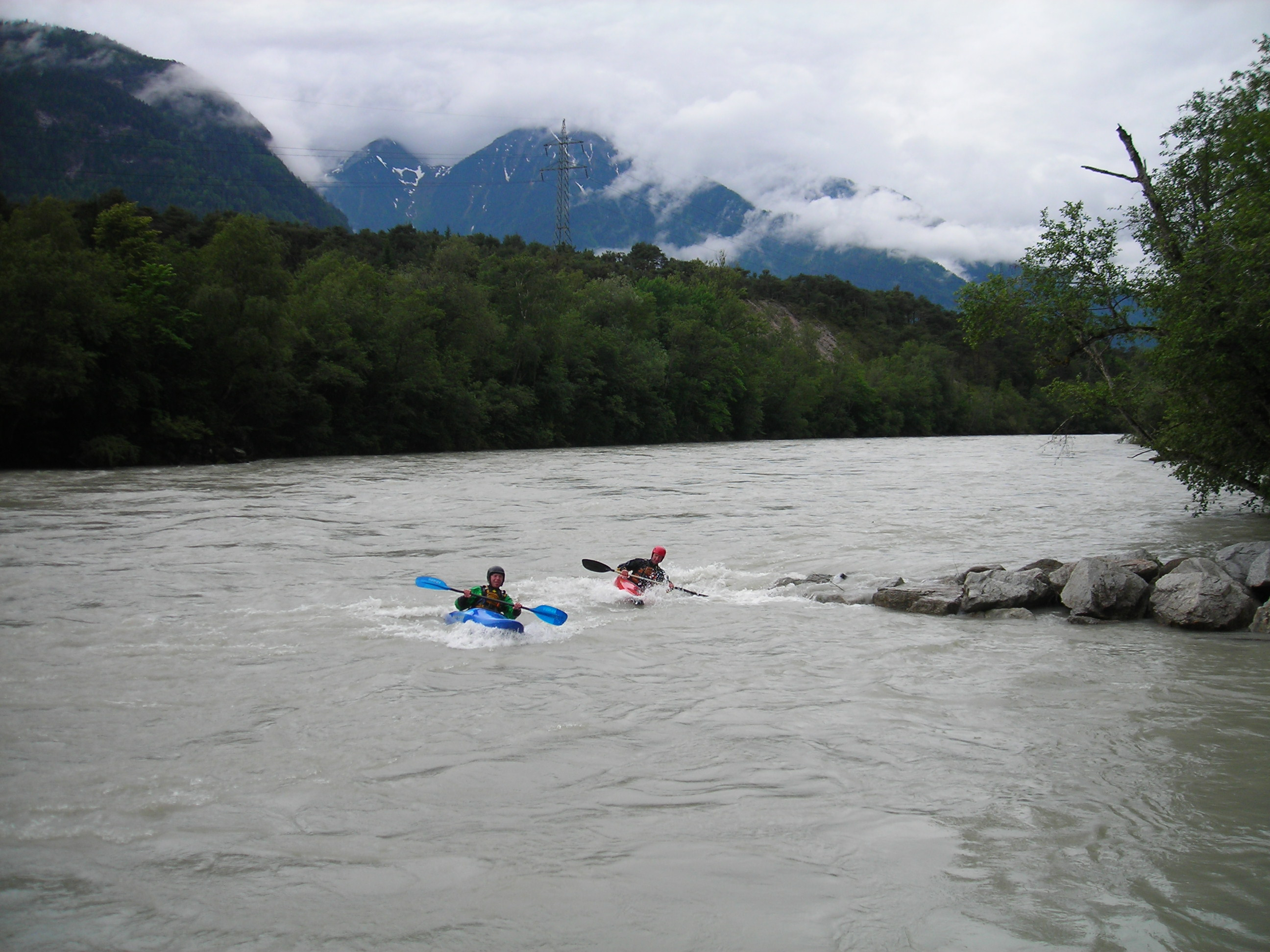 Inn River near Haiming